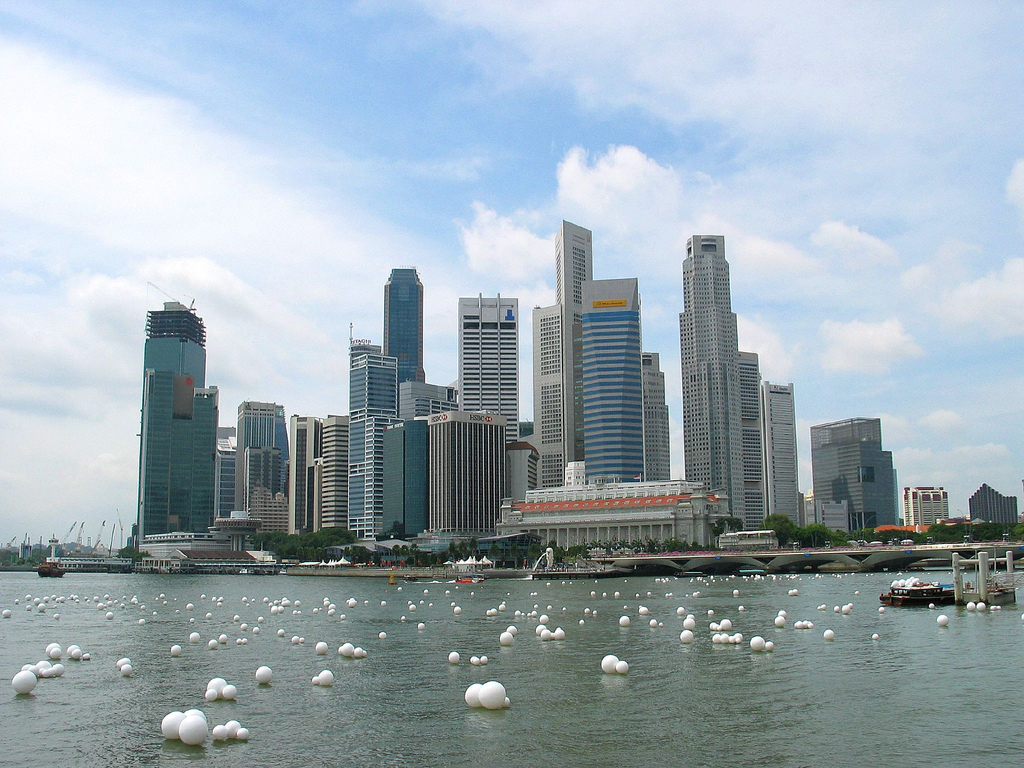 A view of Singapore's downtown from the Marina. The balls floating in the water were part of the New Year's celebration